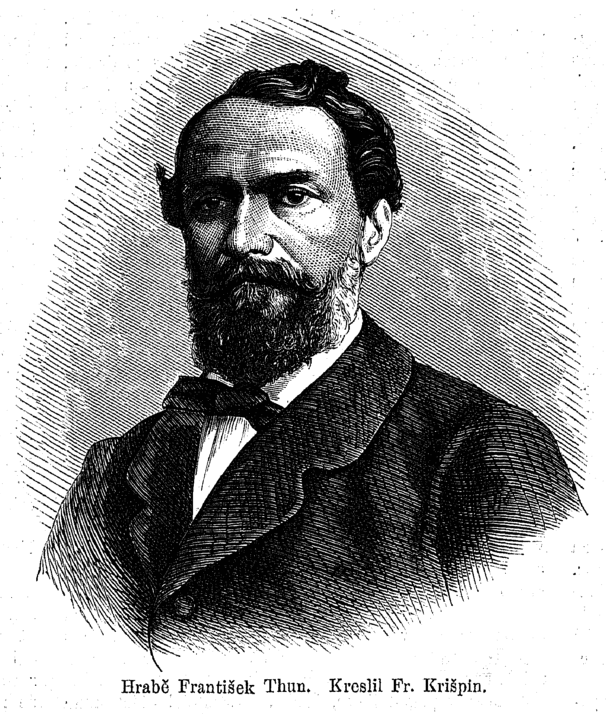 Portrait of Franz Anton II. von Thun und Hohenstein (1809-1870), Austrian and Bohemian nobleman.